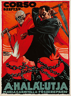 Poster for the 1916 German film Der Weg des Todes.